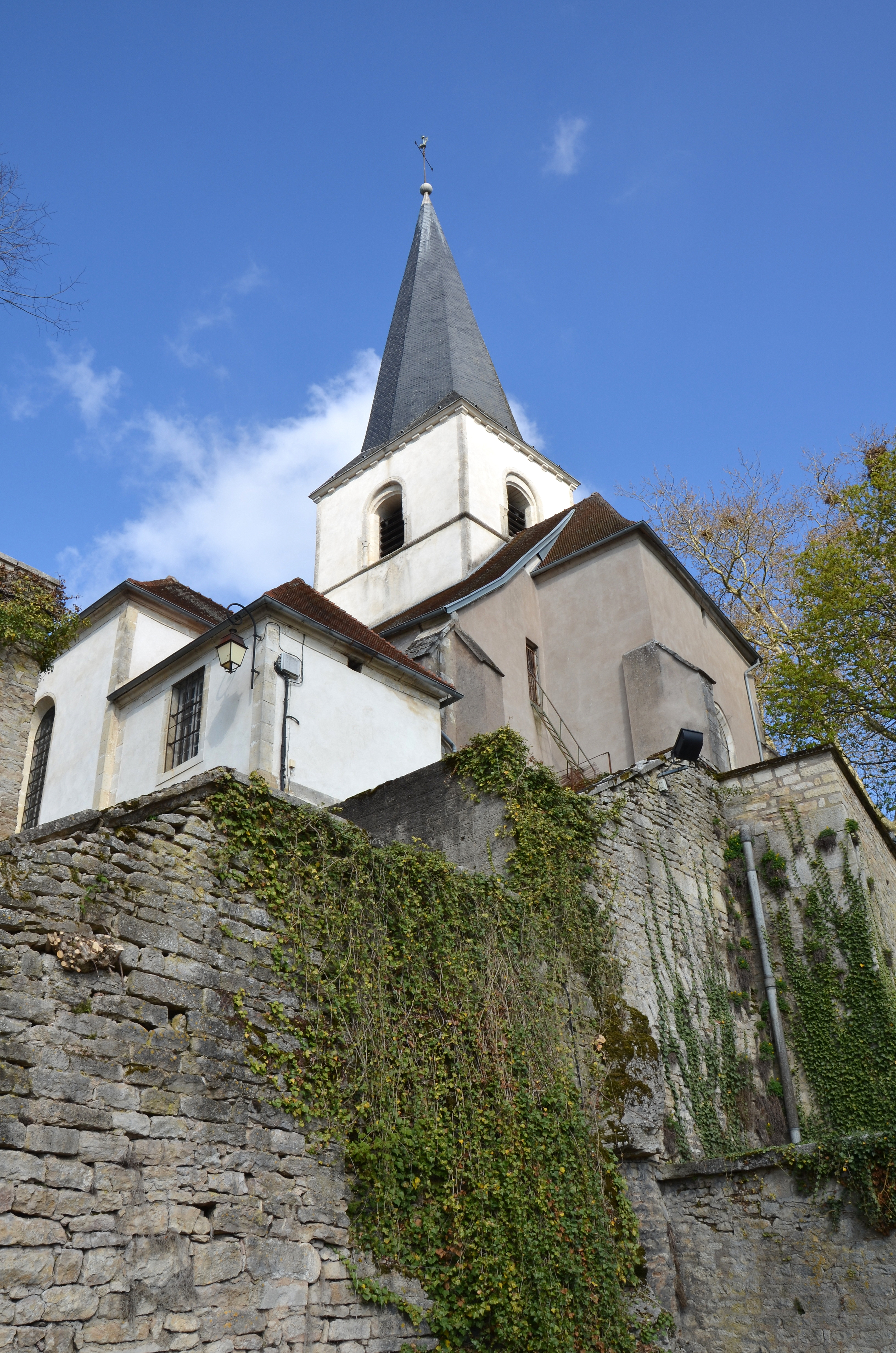 Church Sainte Urse in Montbard, Côte d'Or, Bourgogne, France